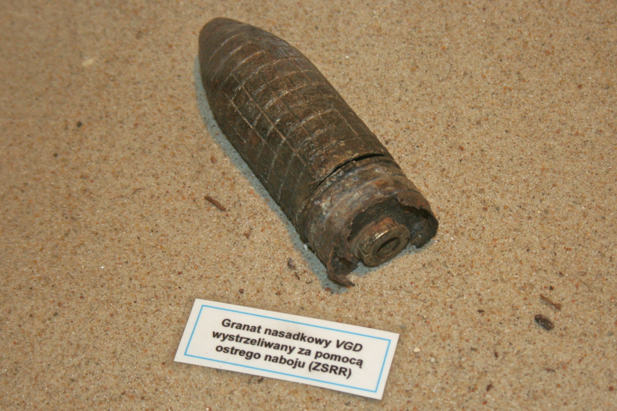 Collections of Museum of Coastal Defence - Soviet rifle grenade VGD.